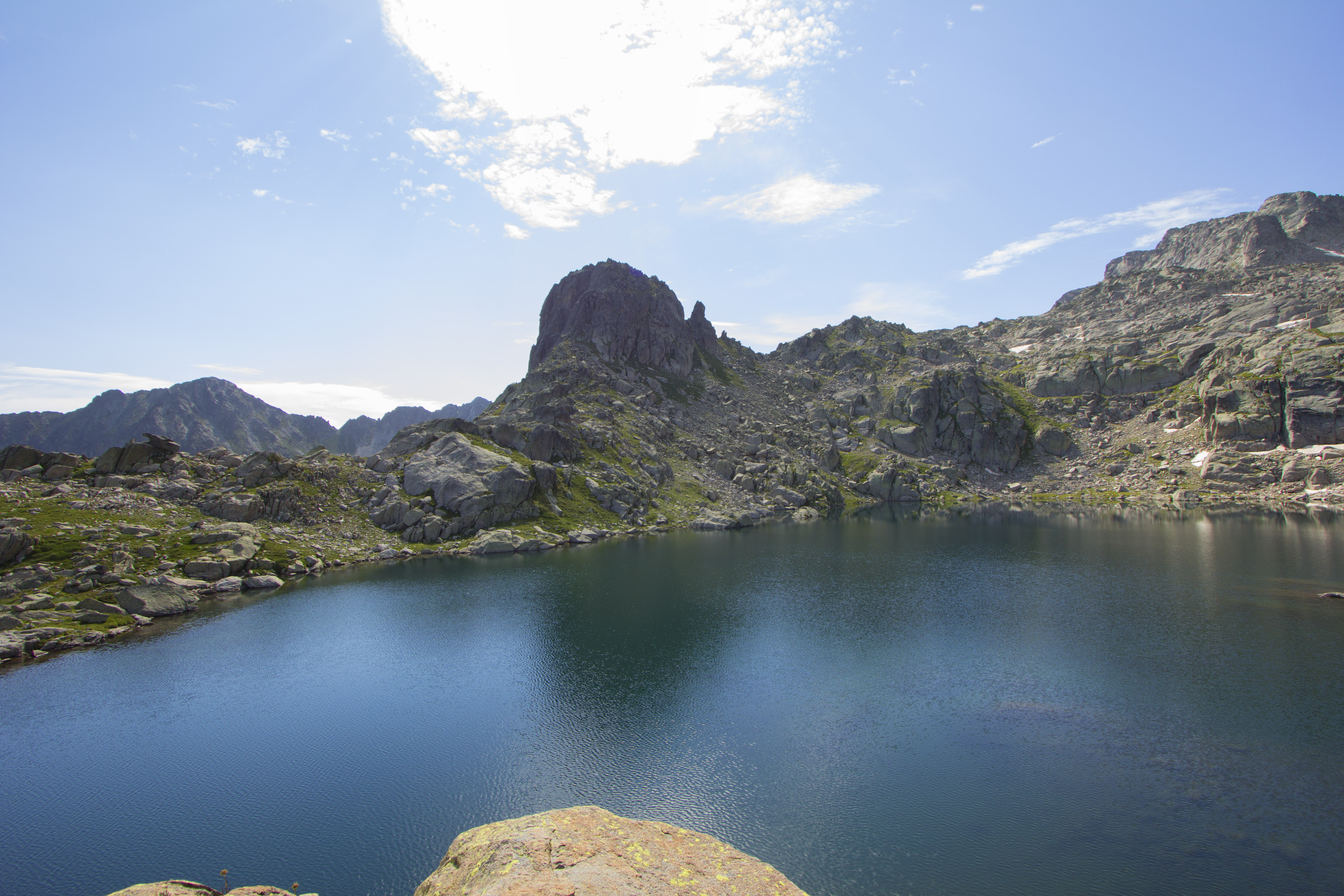 Gelat lake and Podo peak, Colomers cirque, Arties (Catalan Pyerenees)